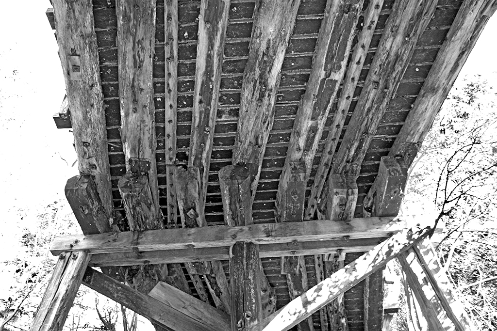 View from below of deck of Maldon Timber Suspension Bridge, Maldon, NSW Australia